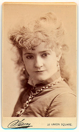 This is a scan from an image in my personal collection. Its copyright is expired and I offer it without restriction.